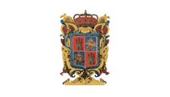 Flag of the State of Campeche, Mexico.